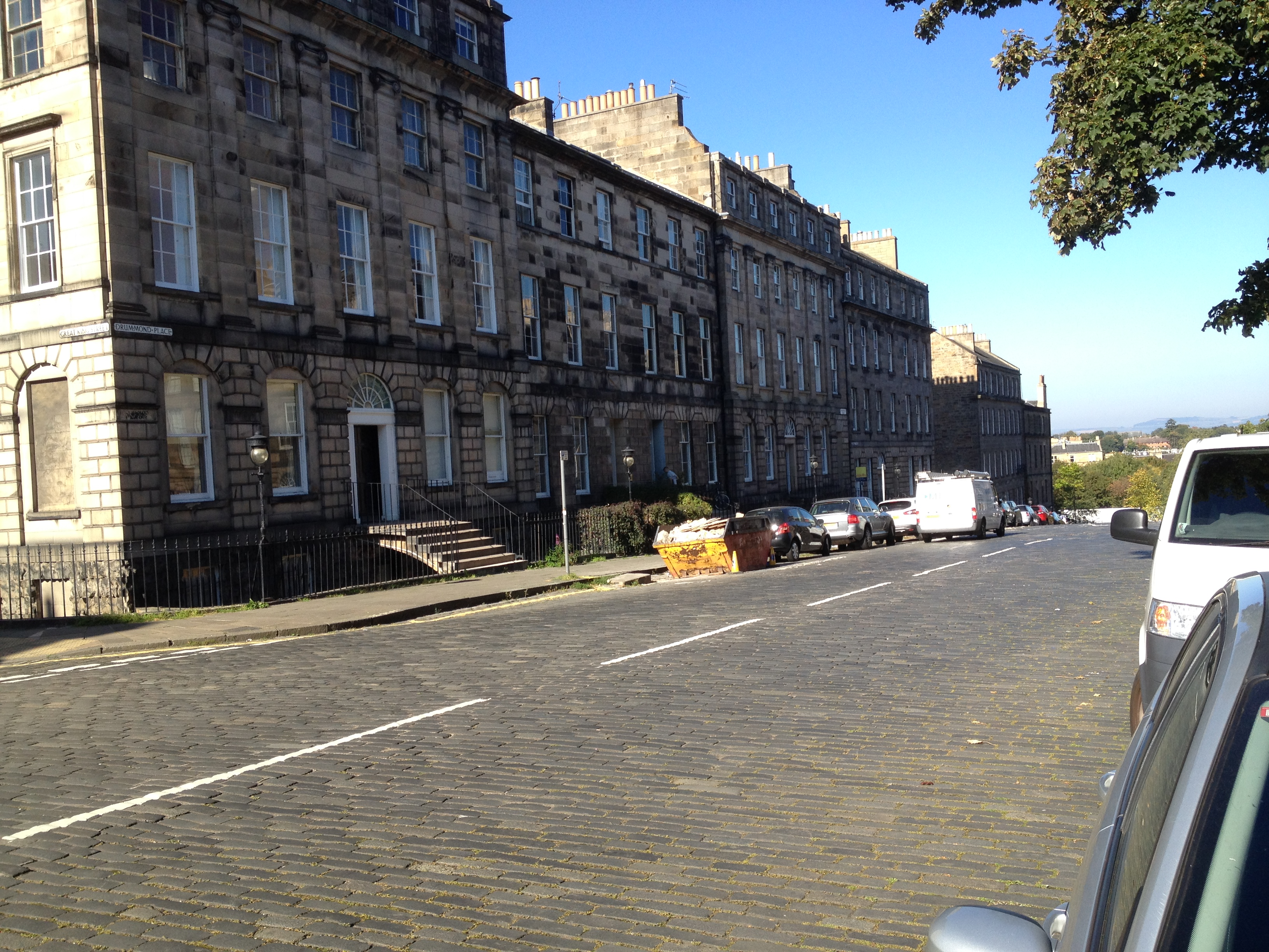 Drummond Place 16-20, Edinburgh